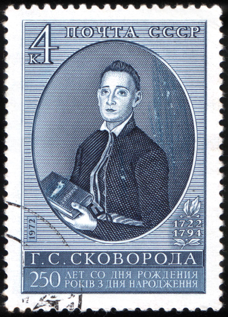 USSR stamp, G. Skovoroda, 1972, 4 k.